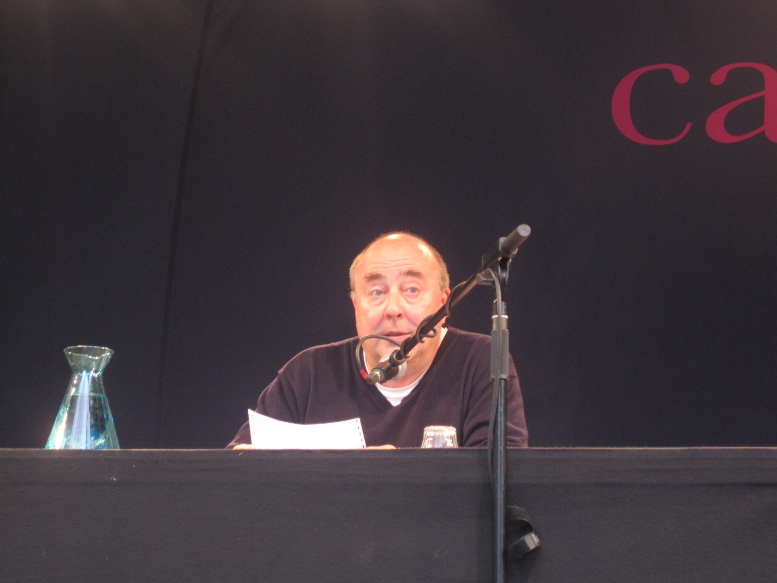 Ralf Sotschek, irish journalist and satirist